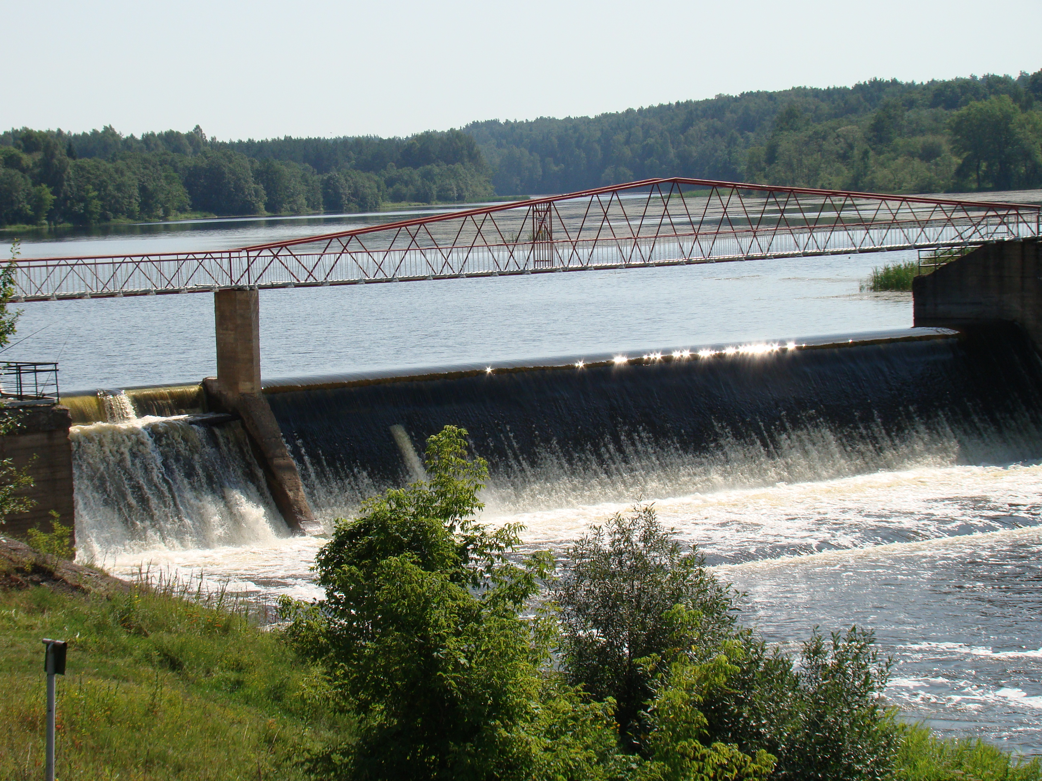 Kavarskas, Anykščiai district, Lithuania